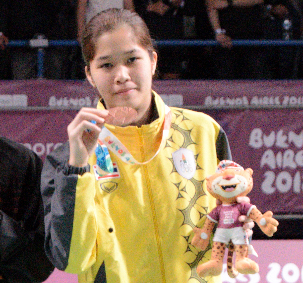 Victory ceremony of the girls singles badminton tournament of the 2018 Summer Youth Olympics.